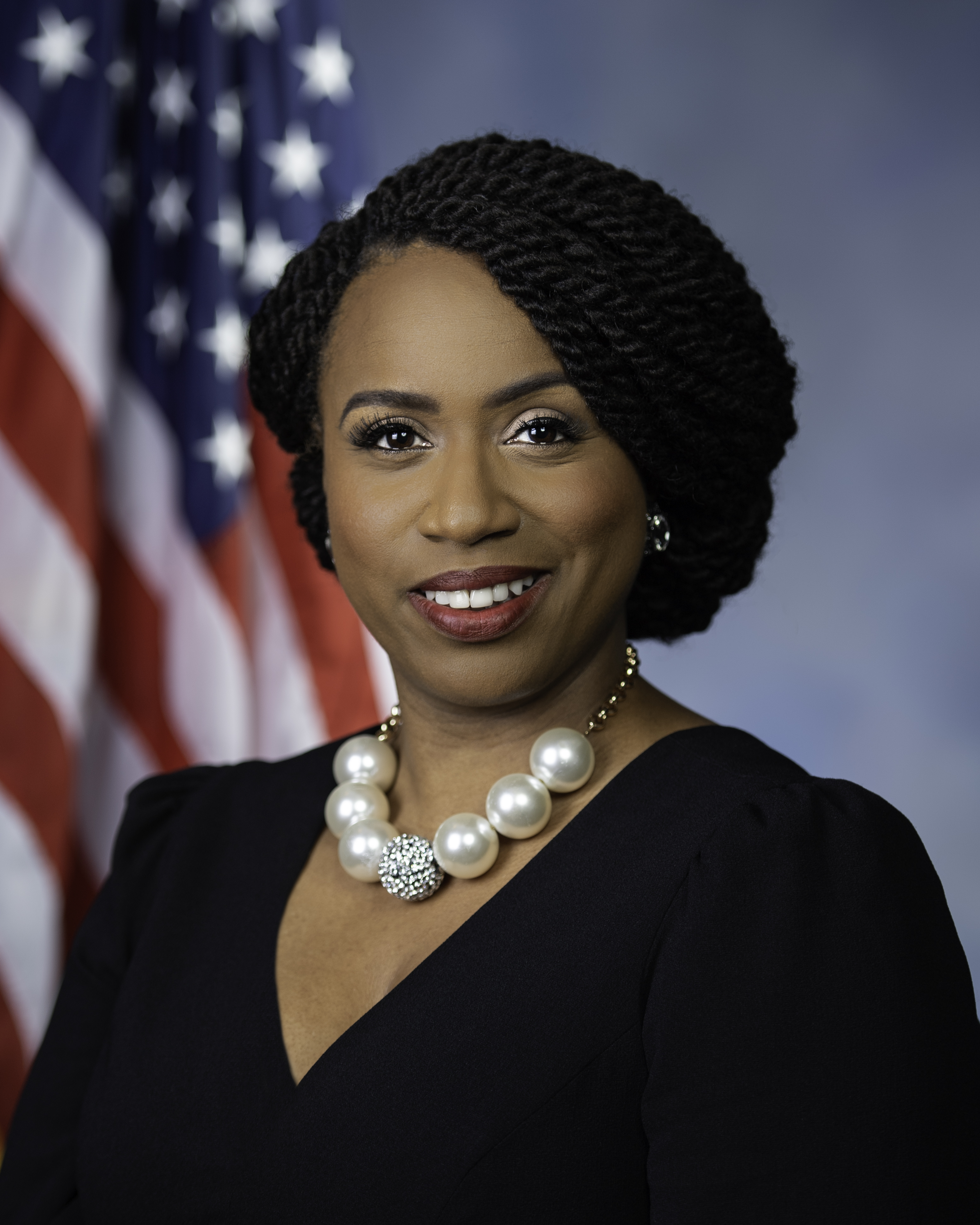 First congressional portrait of Rep. Ayanna Pressley